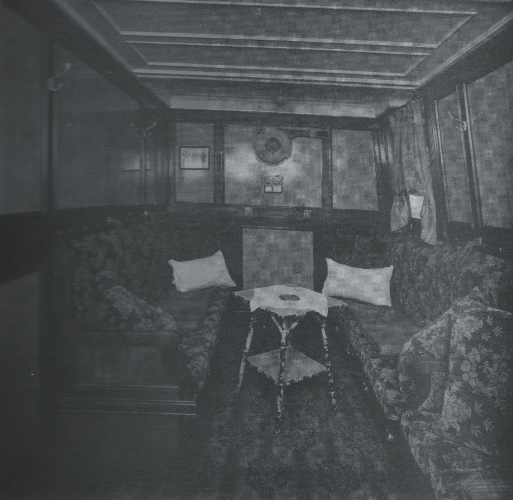 Specially appointed State Room, on board Ben-my-Chree.